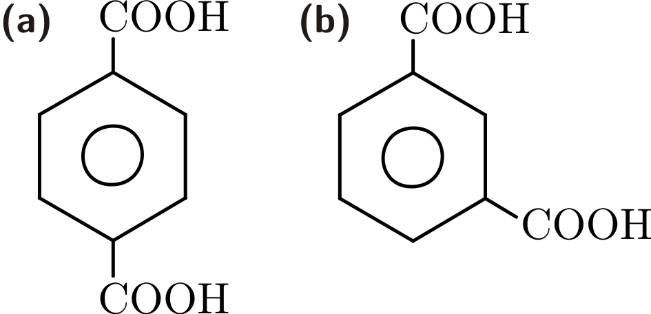 terephthalic acid and isophthalic acid